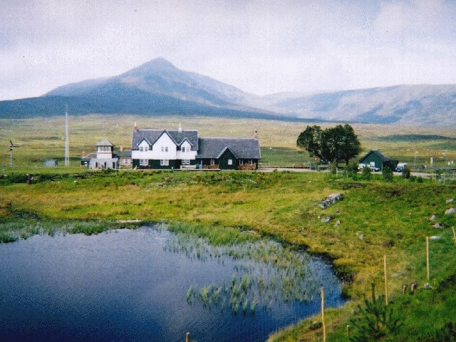 Corrour Station with Leum Uilleim behind. My favourite station. Nearest tarmac'd road - 6 miles as the raven flies and yet it's close to the "Road to the Isles". It used to be possible to stay in the bunkhouse, climb into the signal box and watch the early morning sleeper from Euston whilst eating cereals